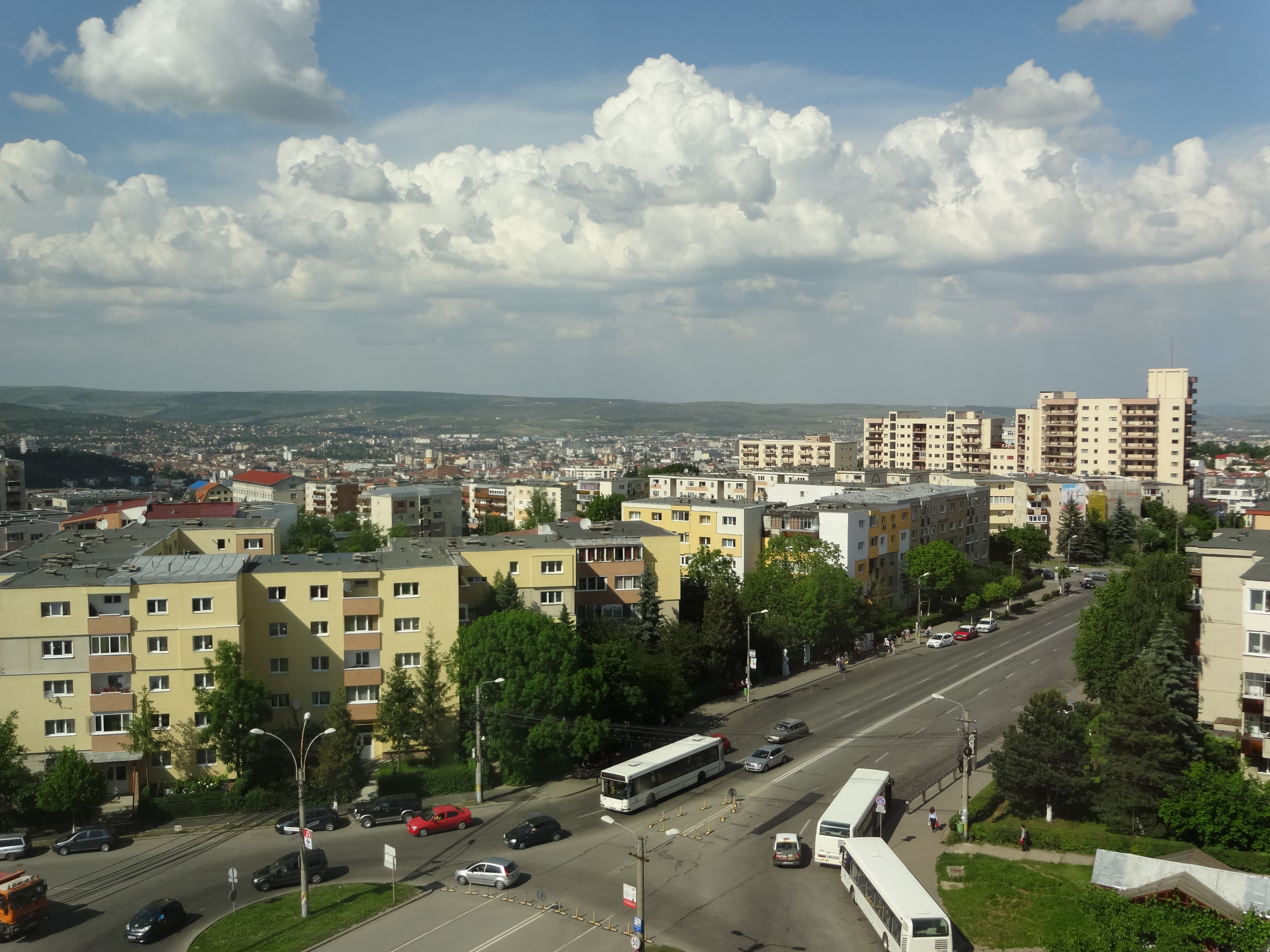 View over south Cluj